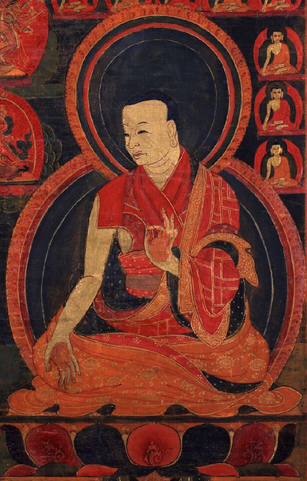 Pomdrakpa Sonam Dorje (b.1170 - d.1249), Kagyu monk